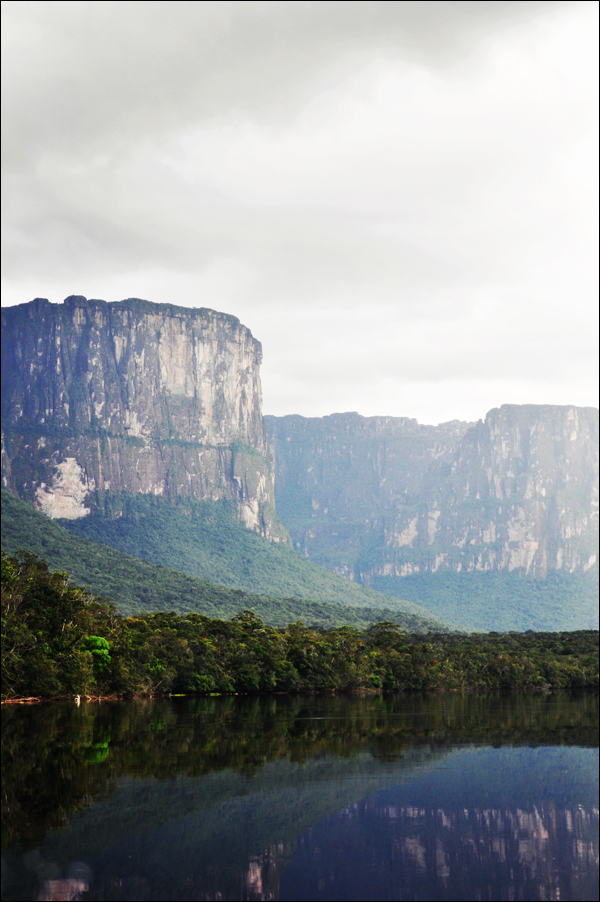 Canaima National Park Landscape, Venezuela